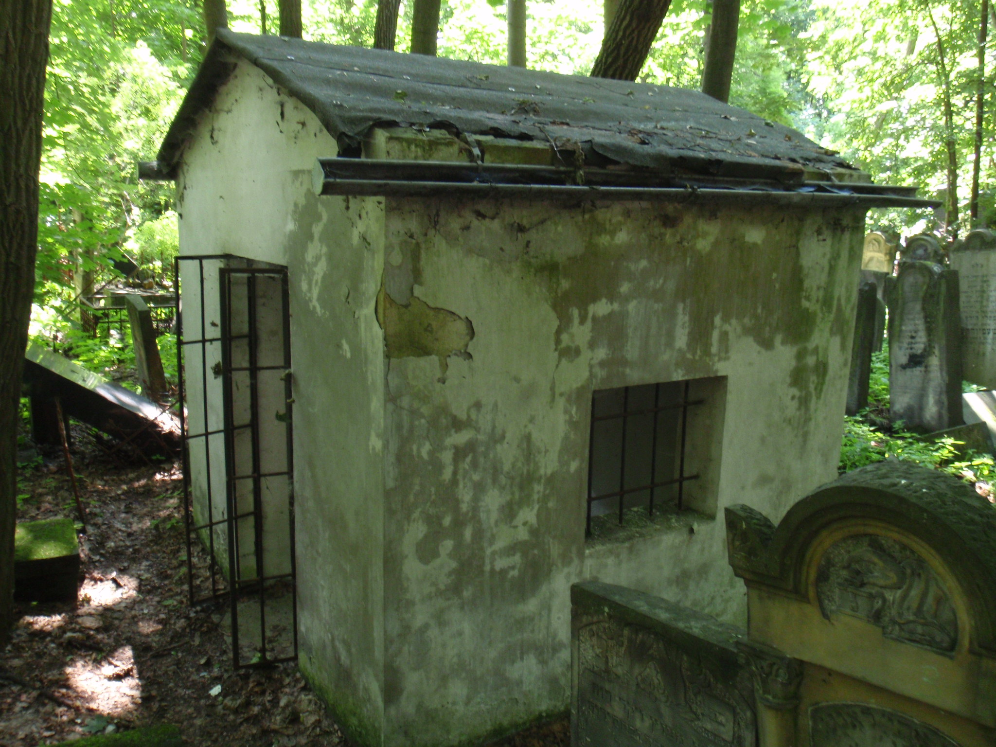 Ohel of Mordechaj Józef tzadik from Złotopole